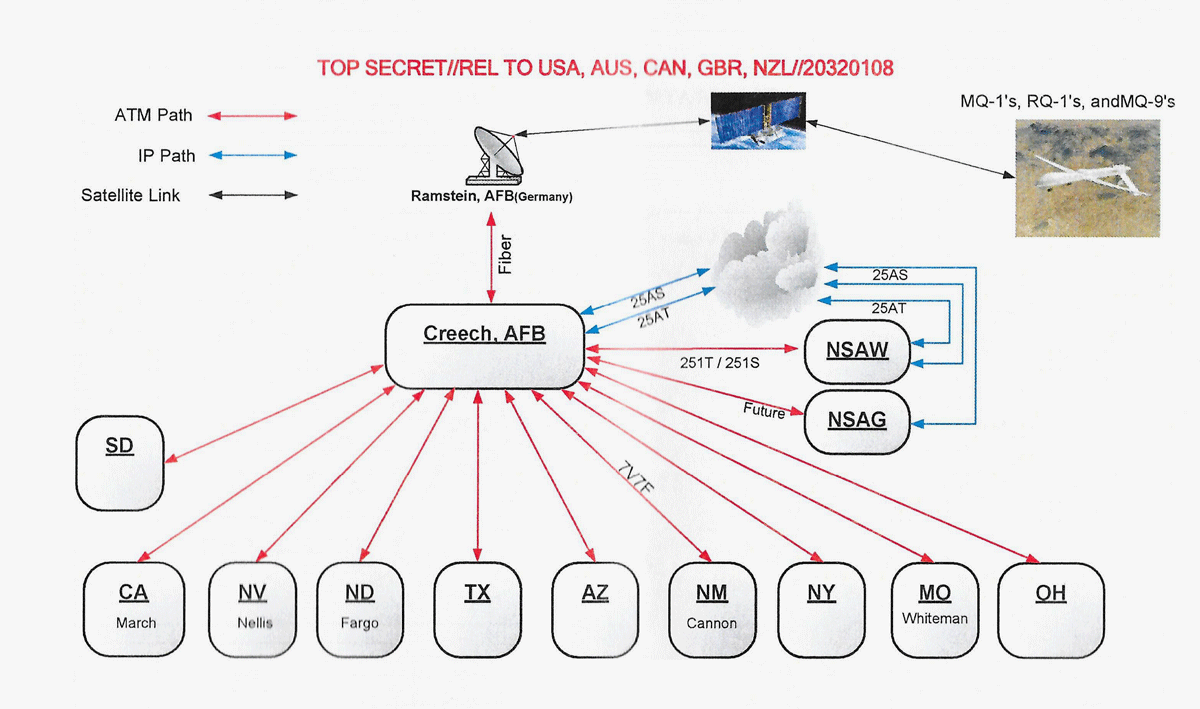 Pull from US Intelligence document showing drone C&C satellite relay based in Ramstein Air Base in Germany -- Original name: Creech-pull